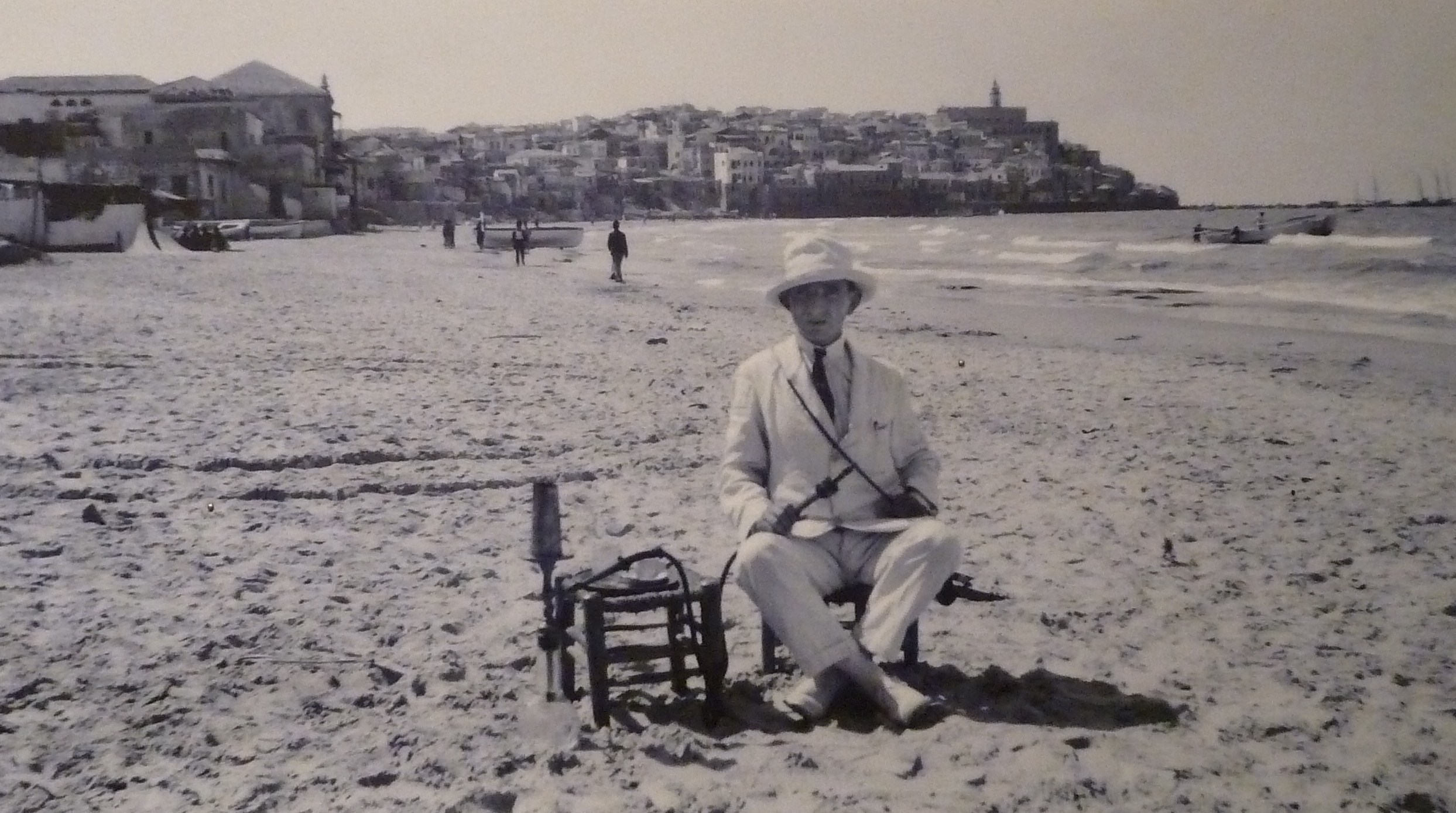 The photographer smoking a huka on Tel Aviv Beache, in the background - Jaffa, mid 1920s